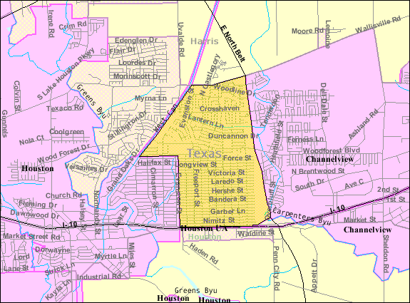 Map of Cloverleaf CDP